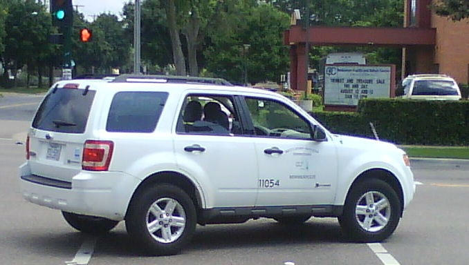 A Minneapolis Inspection Services vehicle, turning onto Lyndale Avenue from West 31st Street.